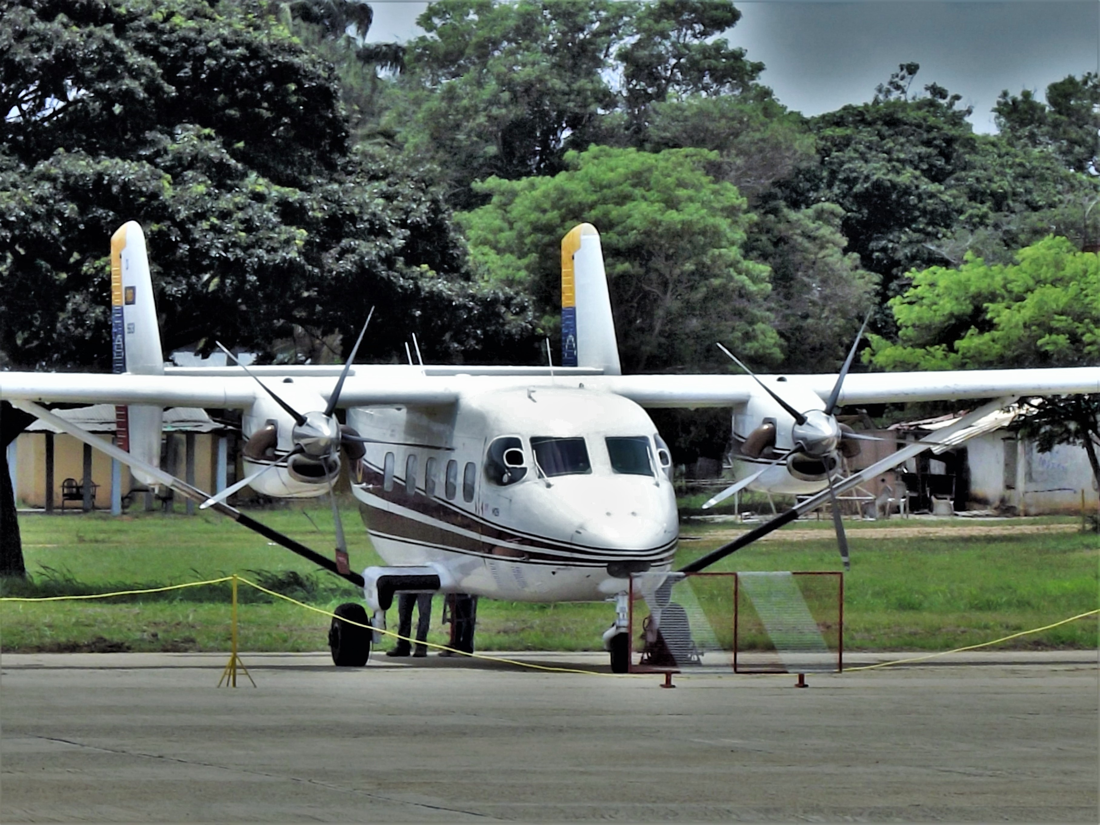 PZL Mielec M-28 Skytruck (GNB-96131). Exhibited at the Aeronautical Fair "BALANDA" 2016. Air Base Lieutenant Vicente Landaeta Gil. In Barquisimeto, Venezuela.